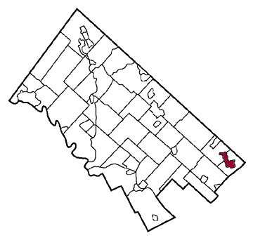 From